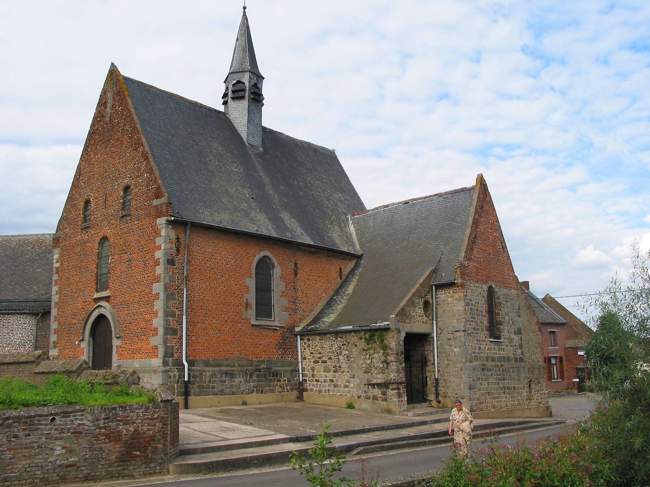 Estinnes-au-Mont (Belgium), Our Lady of Cambron's chapel (XVth century).